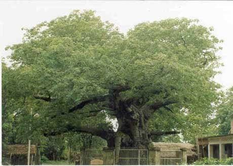 Parijat Tree